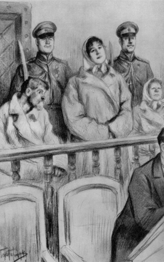 Pre-1910 illustration by Leonid Pasternak of Leo Tolstoy's wikisource:The Awakening: The Resurrection